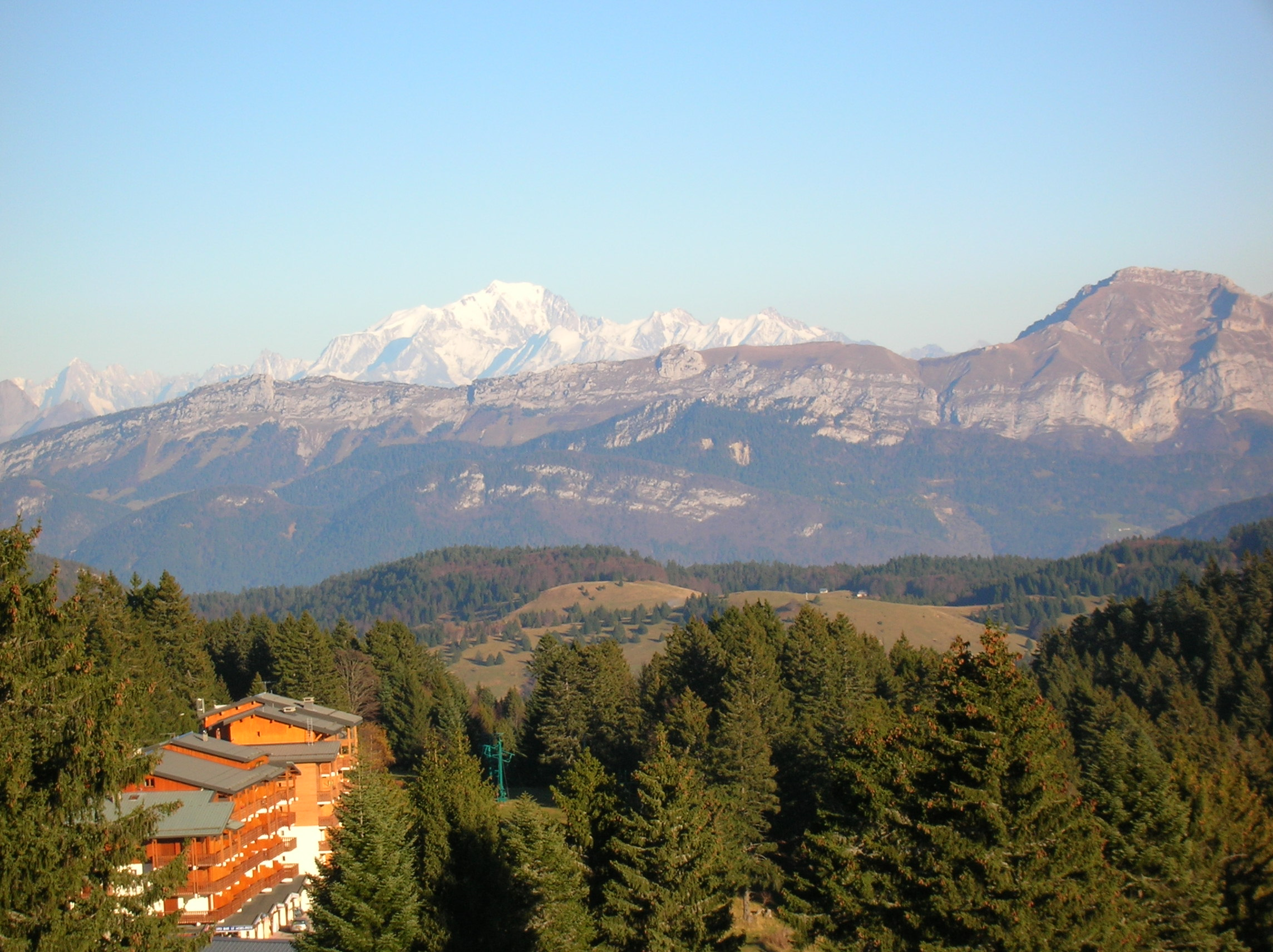 Mont-Blanc seen from Mont Revard in Aix-les-Bains (Savoie, Rhône-Alpes, France).